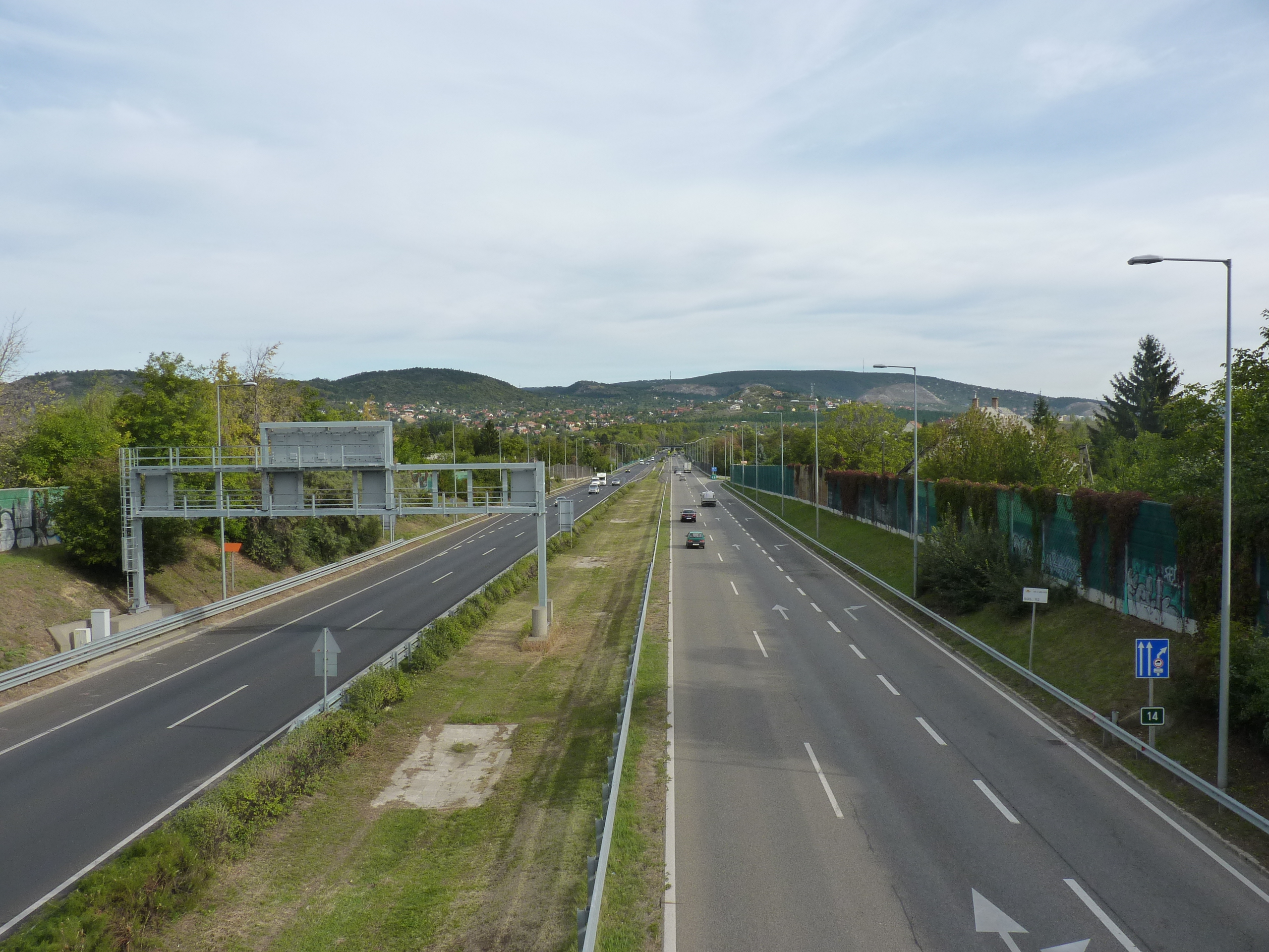 M7 motorway at Törökbálint